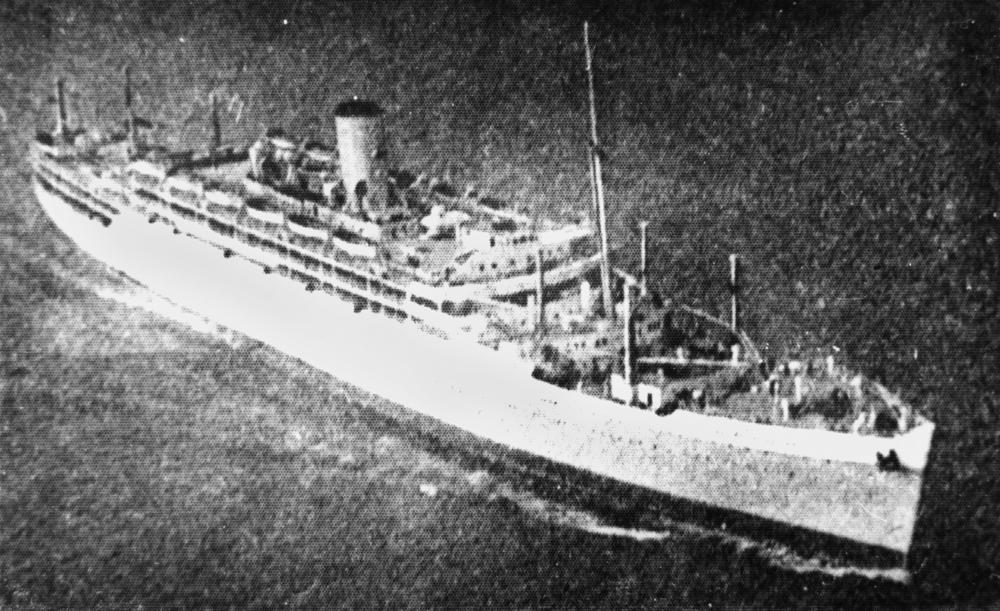 Aerial photograph of the Orient Line passenger ship Orion